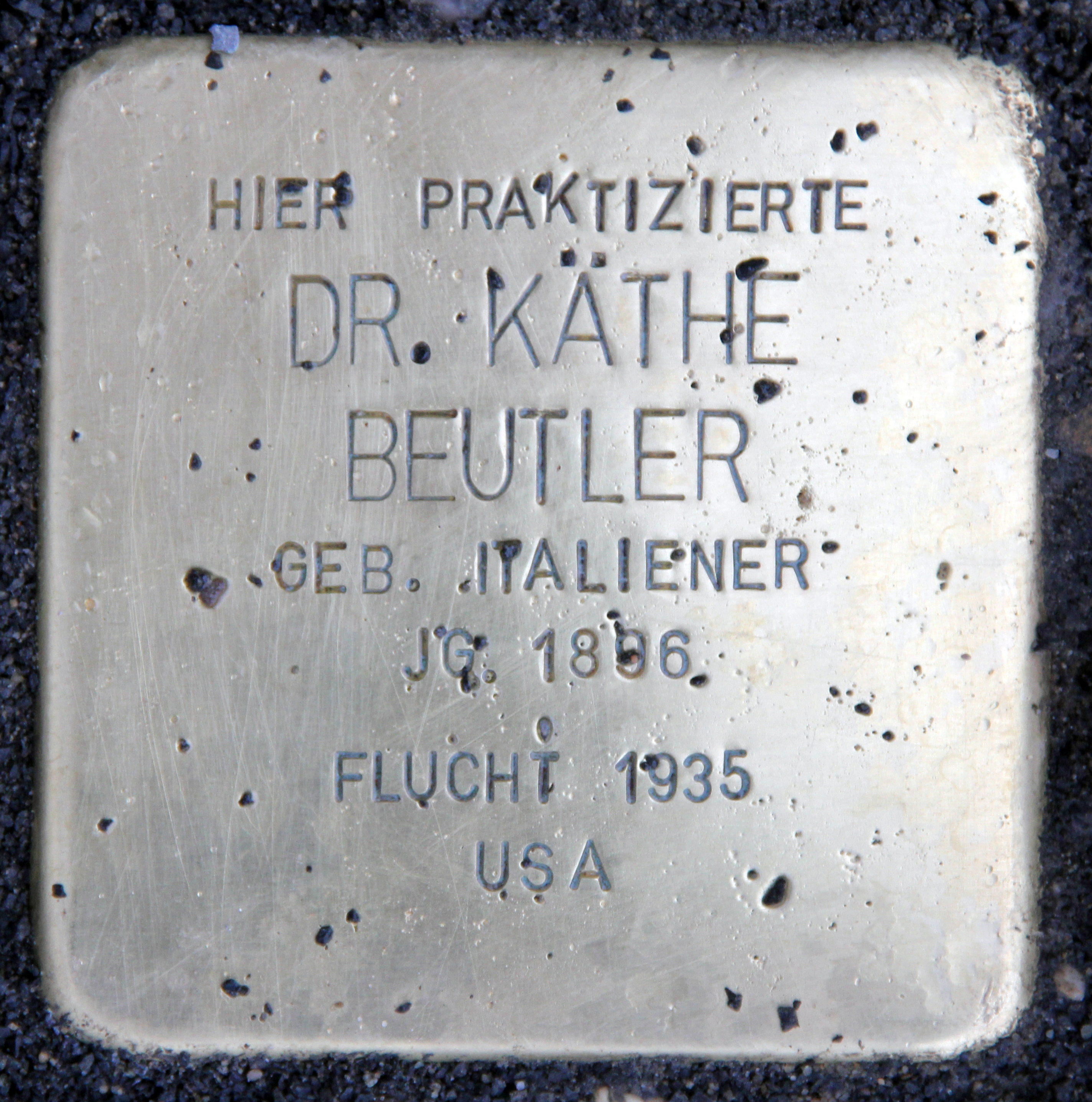 "Stolperstein" (stumbling block), Käthe Beutler, Theodor-Heuss-Platz 2, Berlin-Westend, Germany